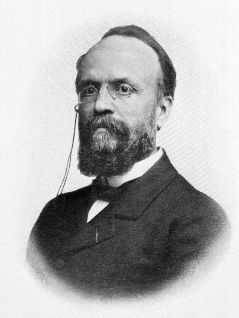 Jean Jacques Paul Reclus (Orthez, 17 January 1847 – Paris, 29 July 1914) Depicted person: Paul Reclus – physician